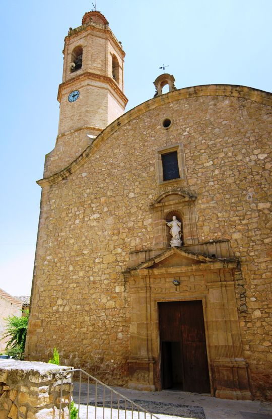 Mare de Deu de l'Assumpció Church in La Palma d'Ebre